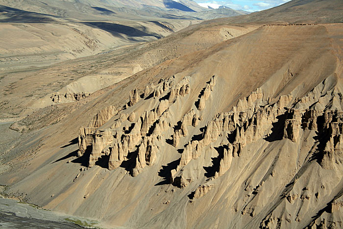 Natural rock and sand formations.Shot by Sundeep Gajjar in The Great Indian Roadtrip